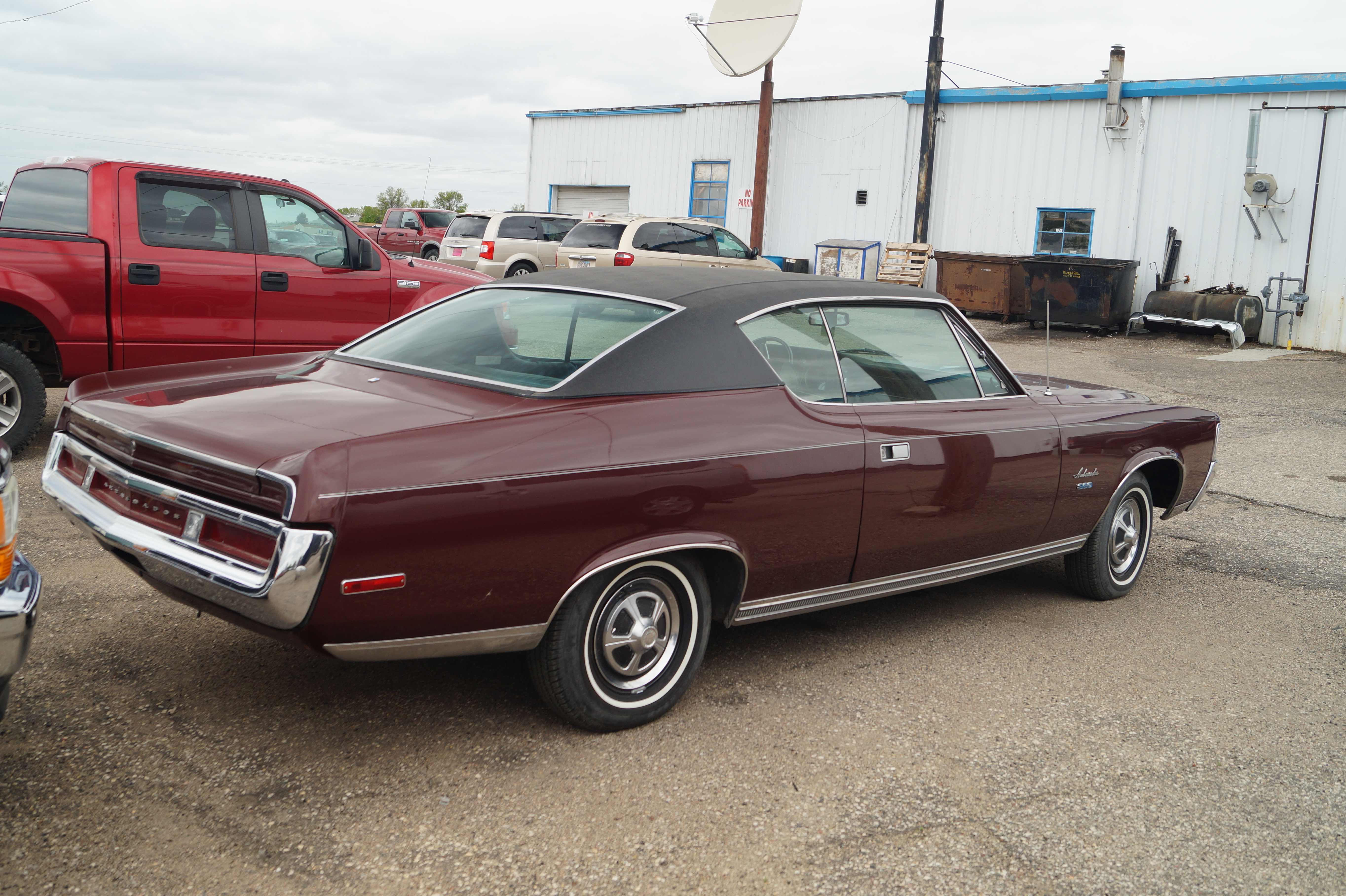 Click here for more car pictures at my Flickr site.